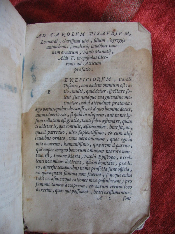 First page of Epistolae Ad Atticum.Brutum,et Quintum fratrem writen by Cicero and printed by Paulo Manuzio in Venize in 1558